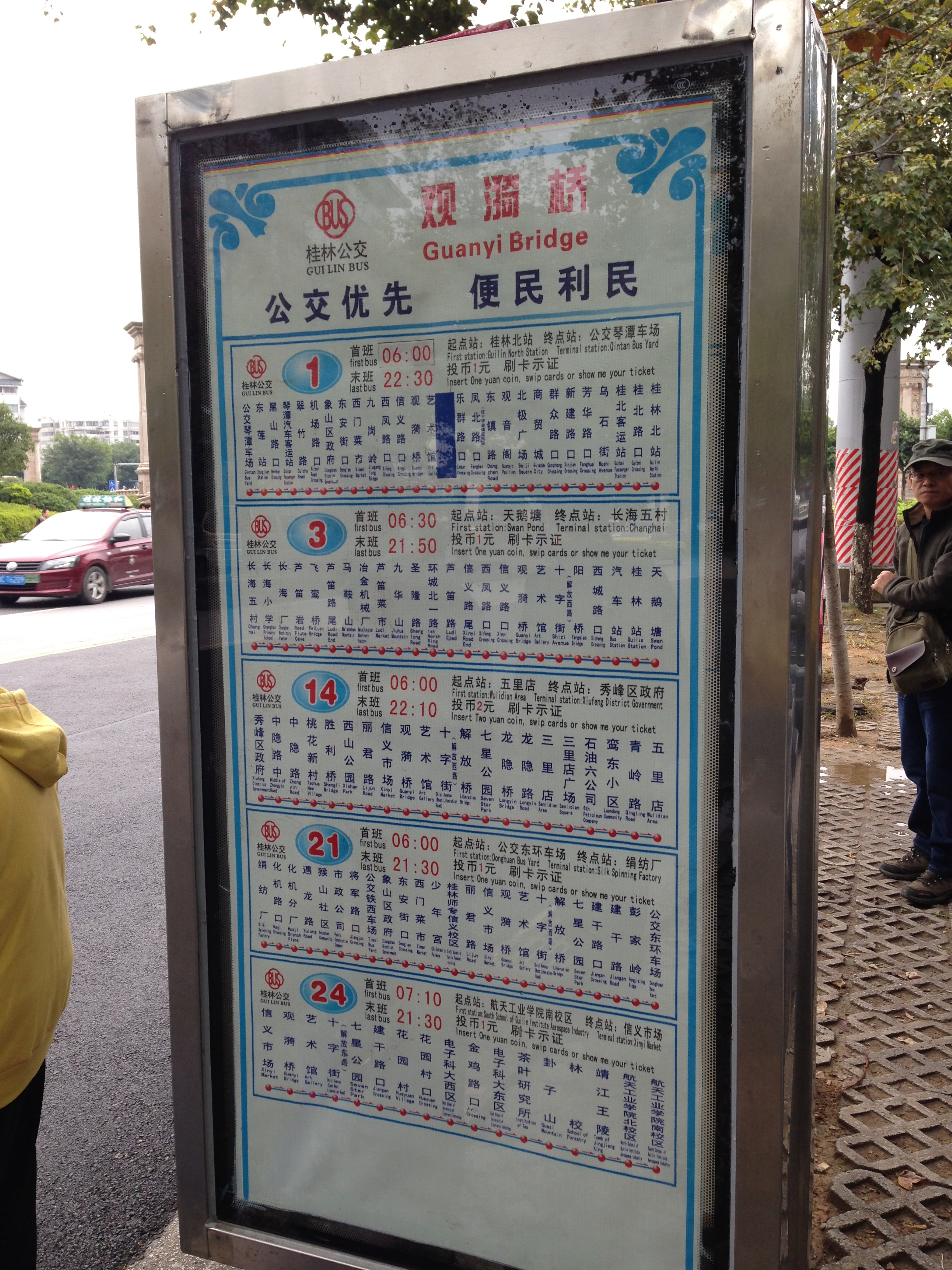 Guilin_Bus_Station_Guanyi_Bridge